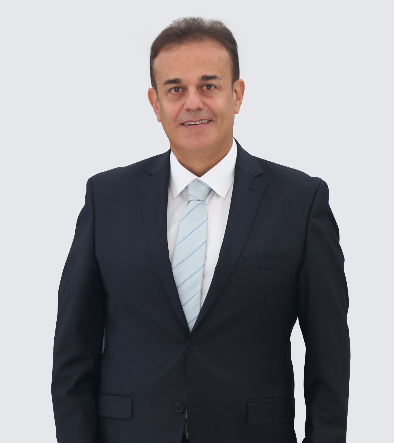 My full body photo